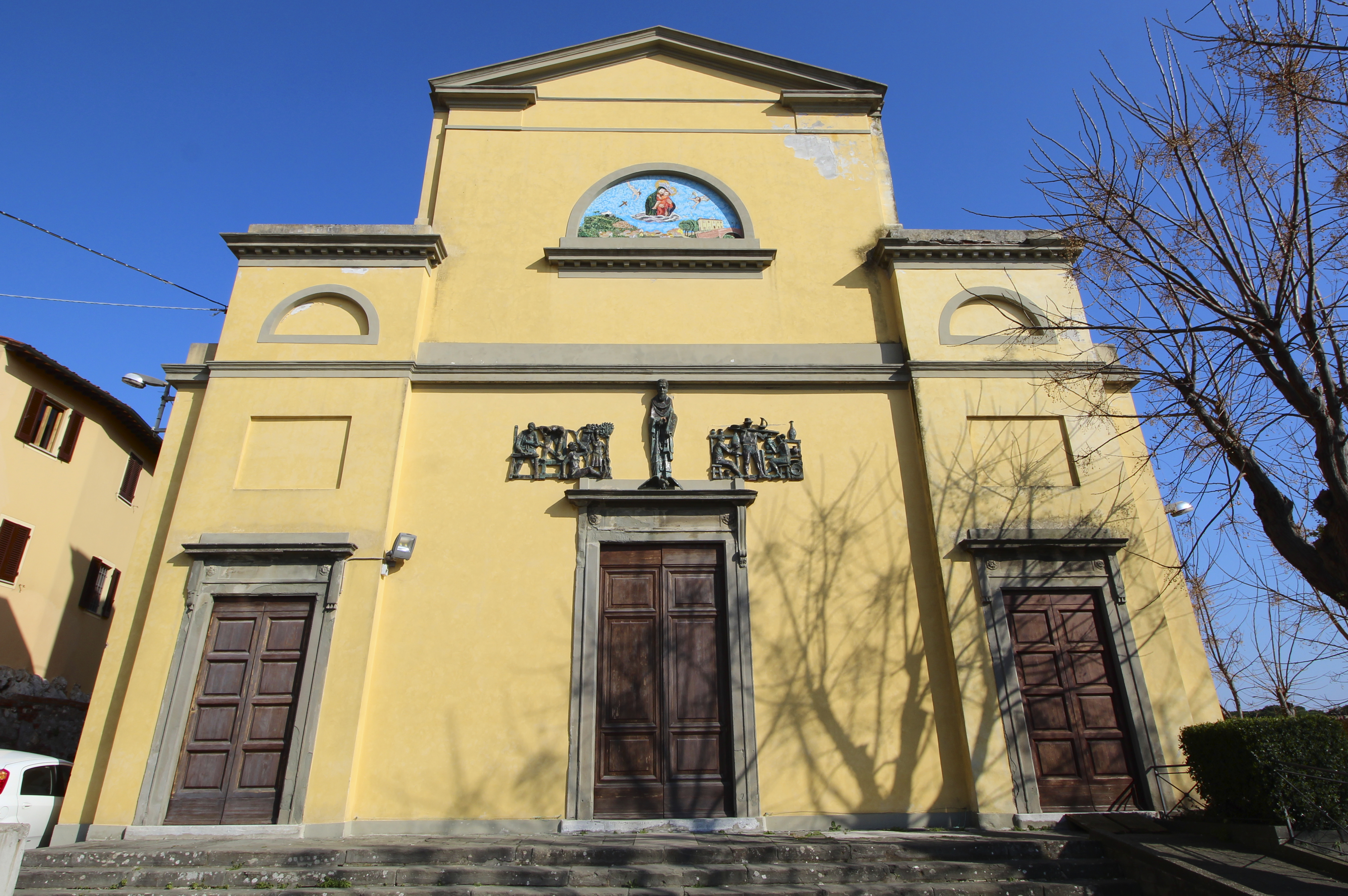 Church San Giovanni Evangelista, San Giovanni alla Vena, hamlet of Vicopisano, Province of Pisa, Tuscany, Italy